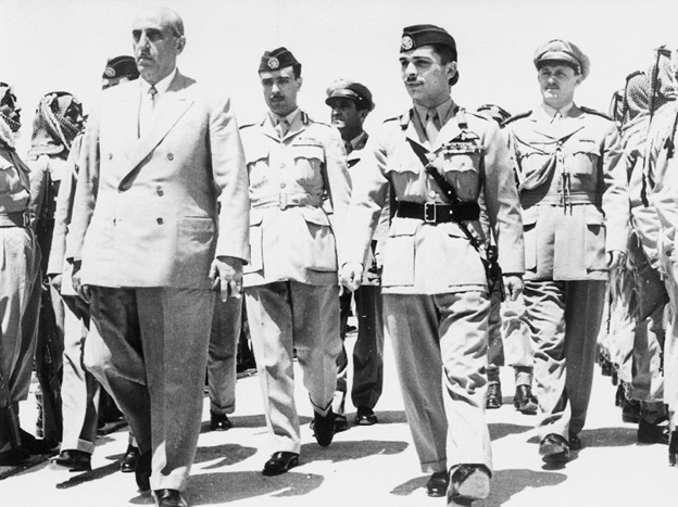 King Hussein (forefront right) inspecting Jordanian troops with Syrian President Shukri al-Quwatli. Walking behind them is Jordanian Chief of Staff Ali Abu Nuwar